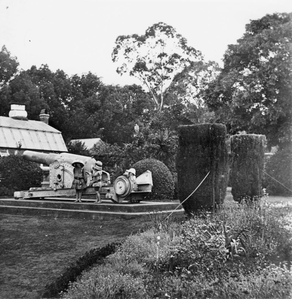 Children posing with the Armstrong gun in the Toowoomba Botanic Gardens, 1912. View of the gardens, greenhouse and clipped trees.